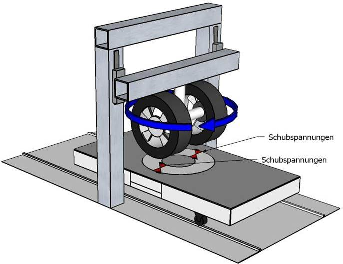 Aachener Rafeling Tester